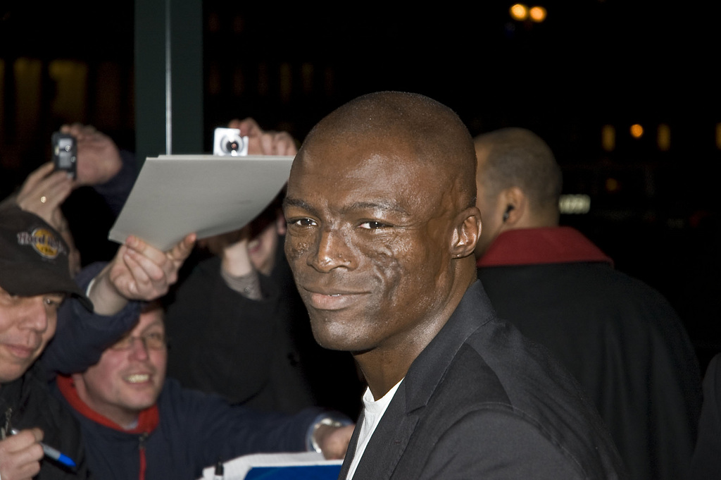 Seal, Volkswagen People’s Night Unfortunately out of focus but the only shot was able to take of him.